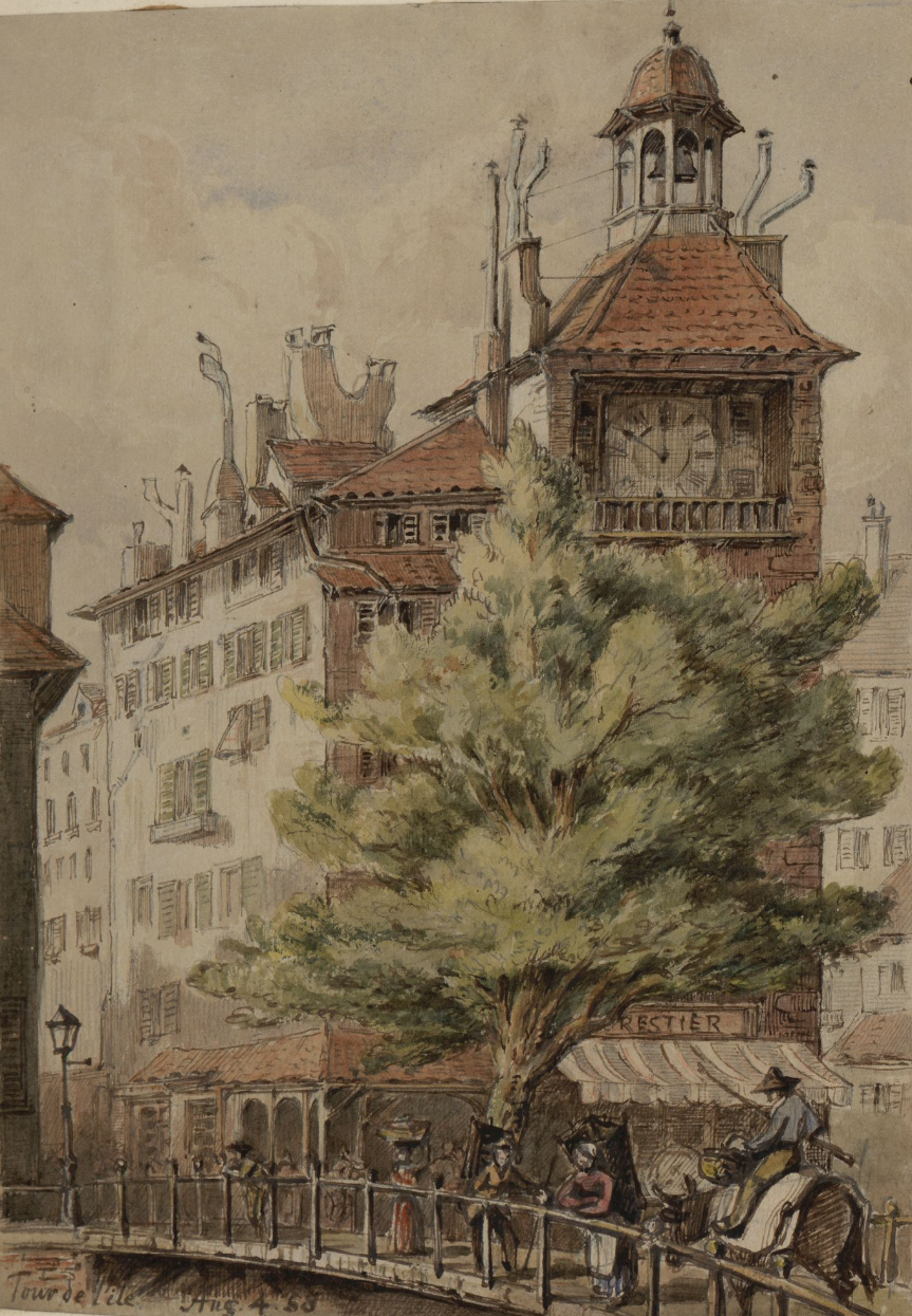 Examples of artwork on a variety of subjects and in a variety of styles by Francis Elizabeth Wynne from a sketchbook (ca. 420 drawings): mixed media, including watercolour, wash and, pen and ink.